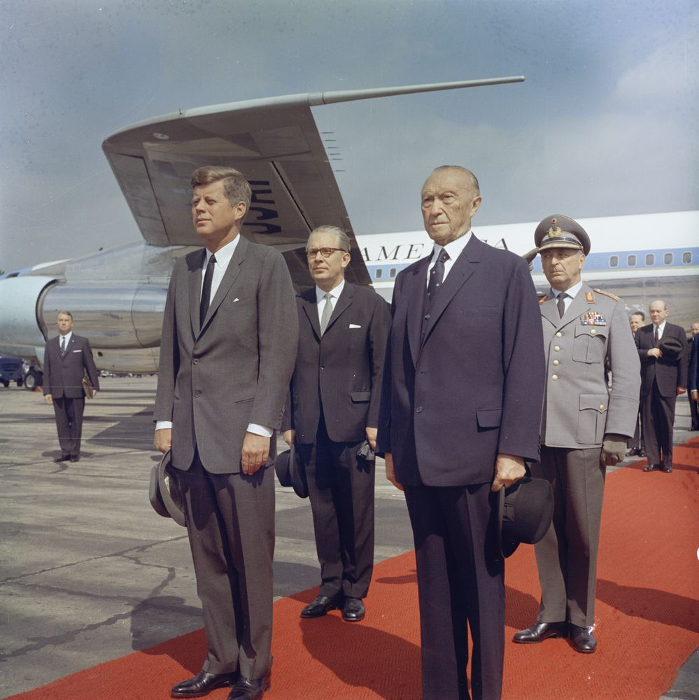 President John F. Kennedy stands with Chancellor of West Germany, Konrad Adenauer (right foreground), during his arrival ceremony at Wahn Airport in Bonn, West Germany (Federal Republic). Standing immediately behind President Kennedy and Chancellor Adenauer (L-R): Federal Minister of Defense of West Germany, Kai-Uwe von Hassel; Inspector General of the Bundeswehr, General Friedrich A. Foertsch. Also pictured: U.S. Ambassador to West Germany, George C. McGhee; U.S. Secretary of State, Dean Rusk; U.S. Chief of Protocol, Angier Biddle Duke. Air Force One sits in the background.